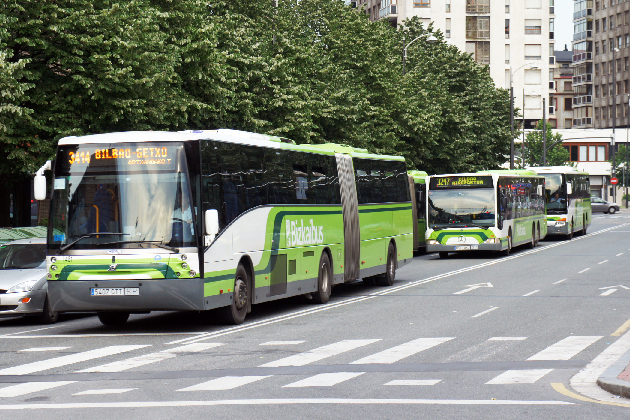 Bizkaibus articulated bus in downtown Bilbao, Basque Country, Spain